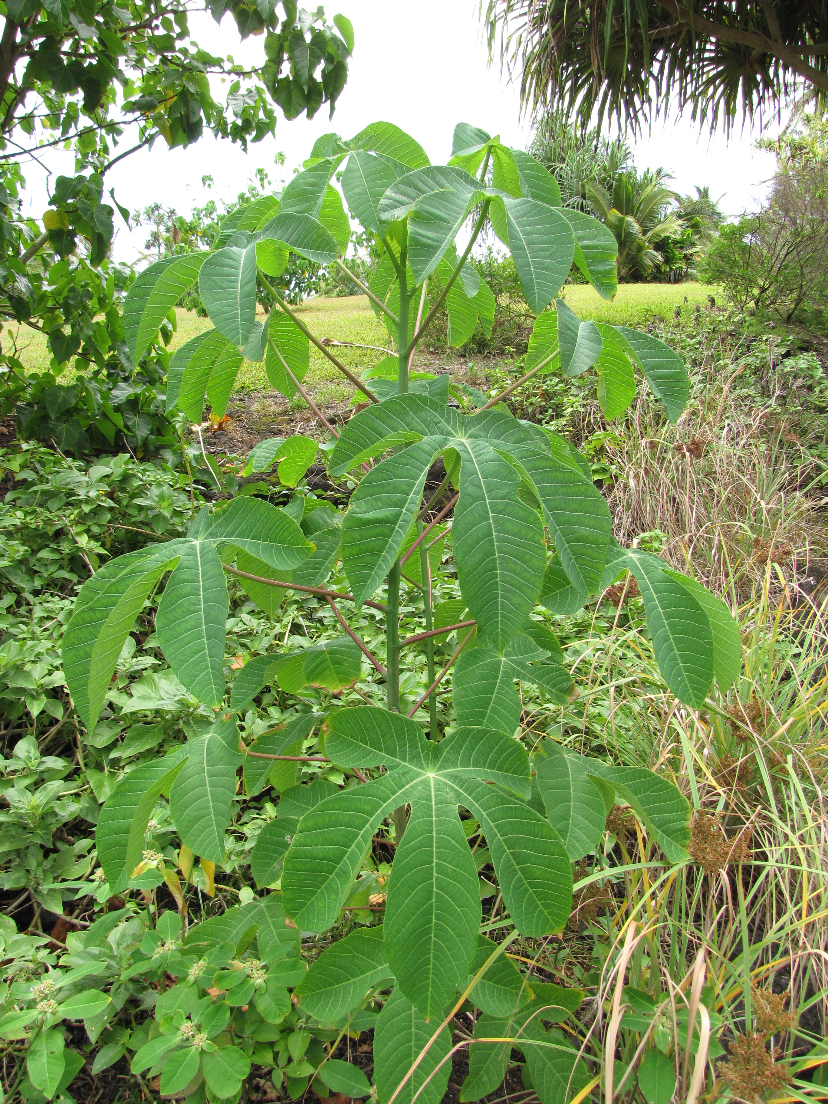 Manihot glaziovii (Ceara rubber tree) Sapling at Kahanu Gardens Hana, Maui, Hawaii. June 06, 2012